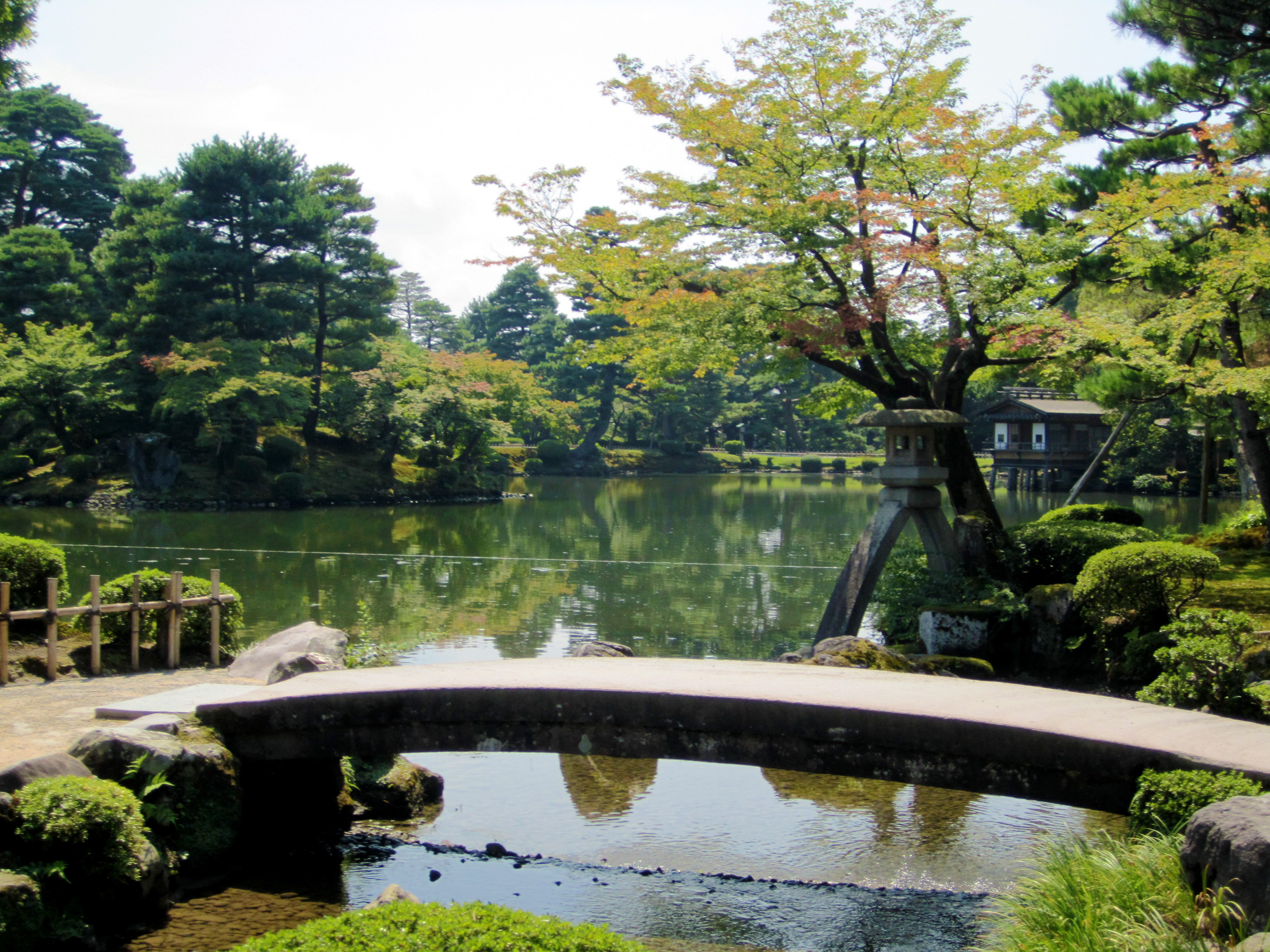 Niji-bashi and Kotoji Toro, Kenroku-en